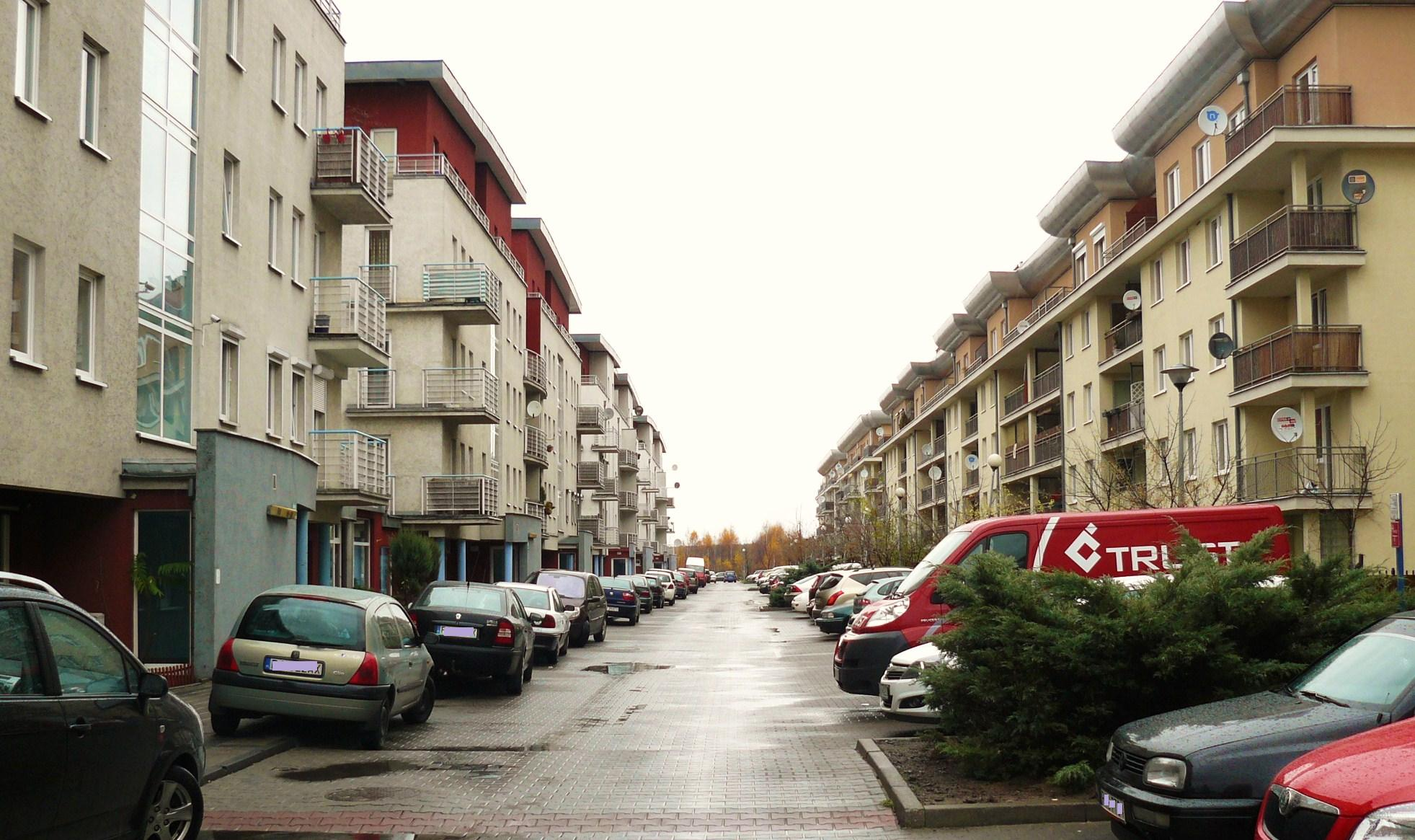 Zurawiniec District, Poznan.